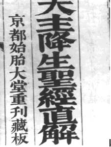 Bible in classical Chinese, translated by Emmanuel Diaz, a Portuguese Jesuit missionary (partial translation)